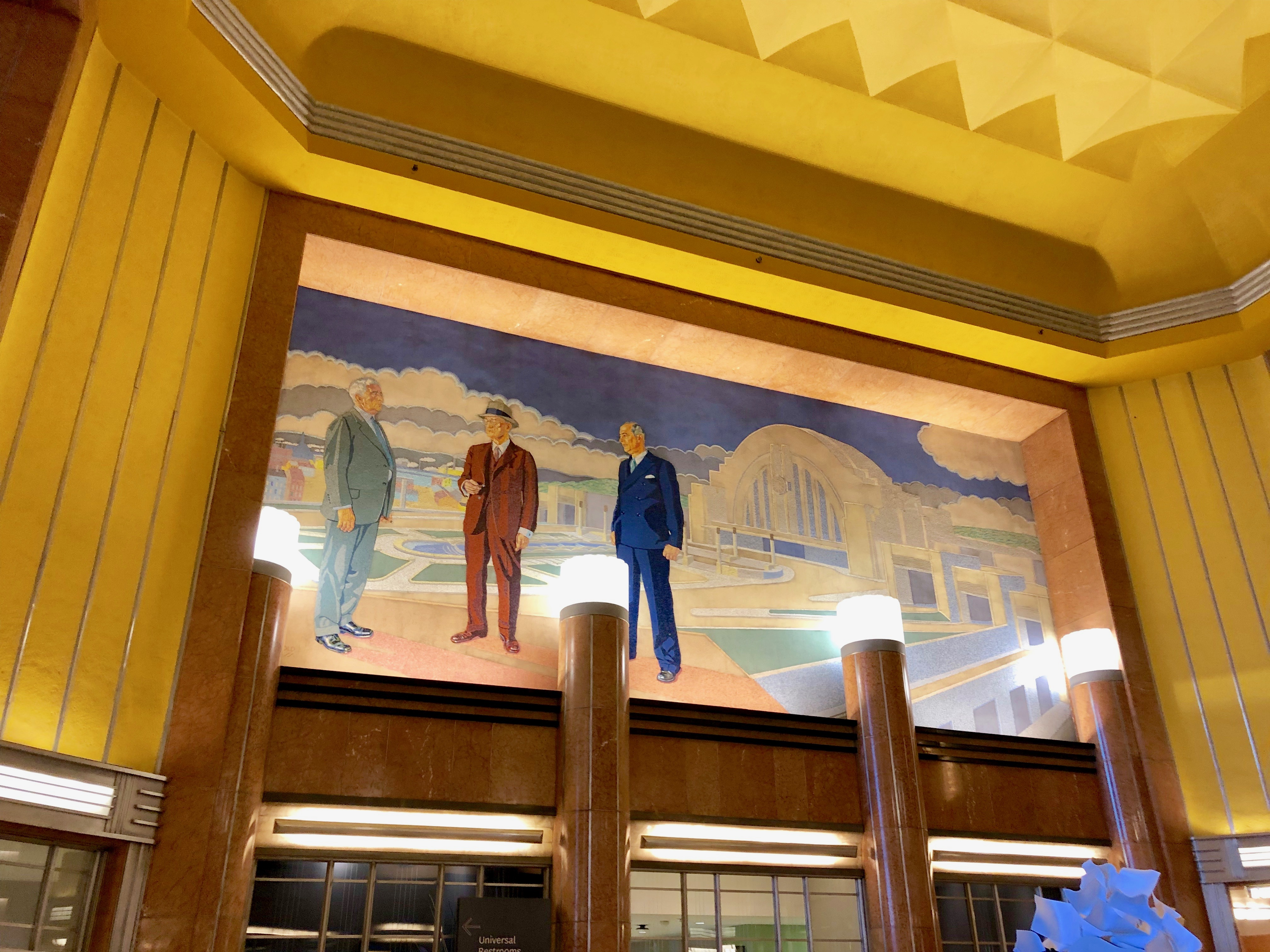 Union Terminal Construction Mosaic, Cincinnati Union Terminal, Queensgate, Cincinnati, OH